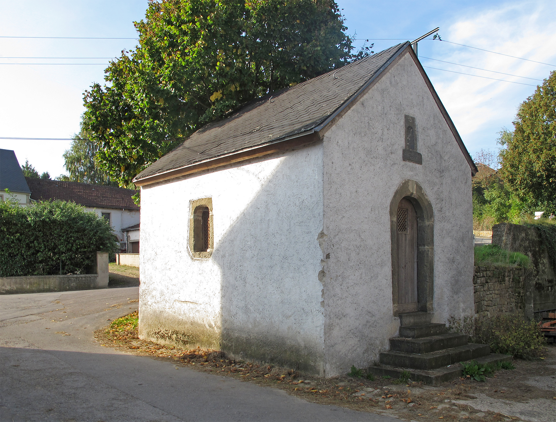 Chapel in Reuland, Luxembourg with a lime tree behind